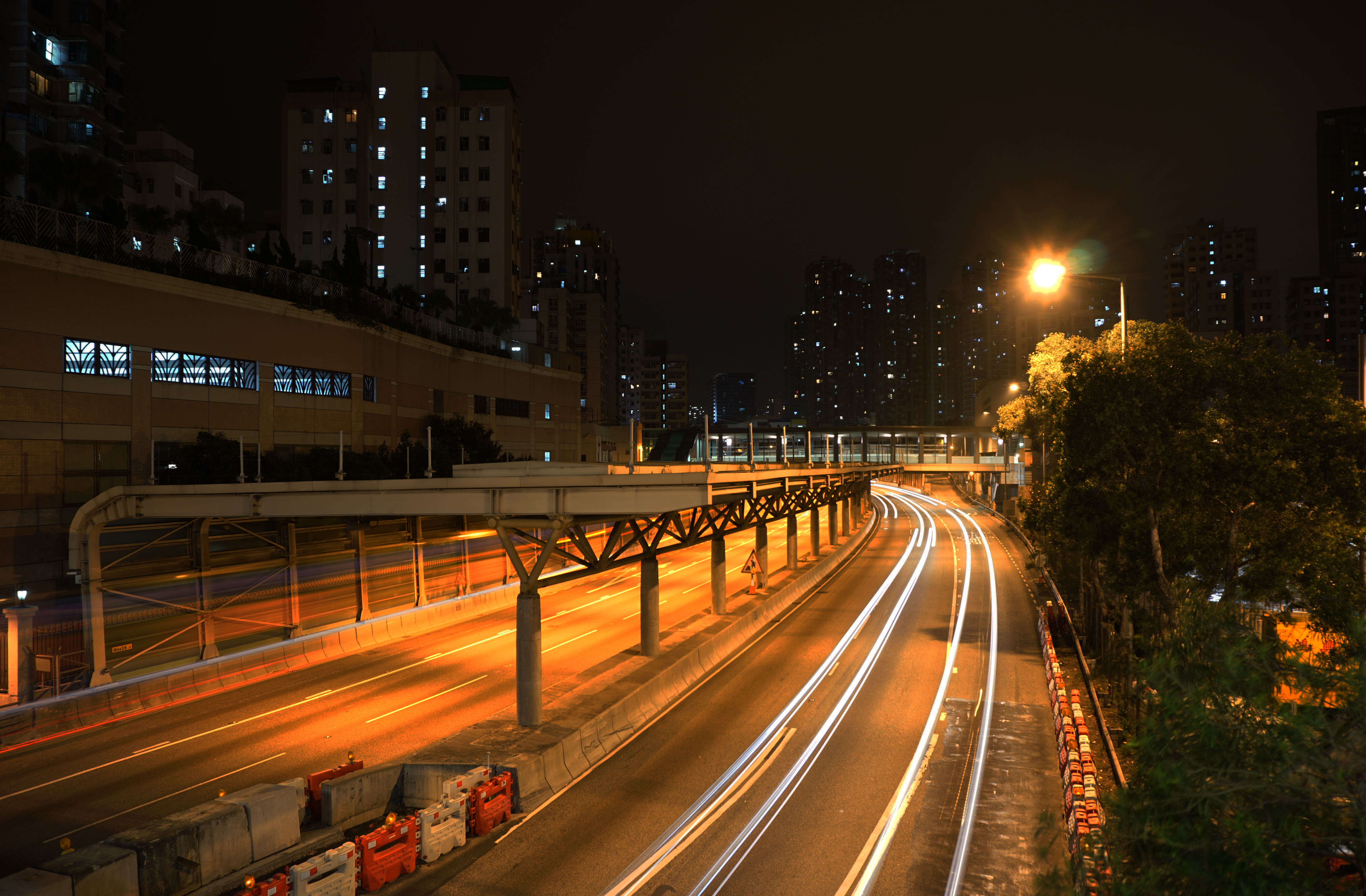 Tuen Mun Road in Tuen Mun, Hong Kong.